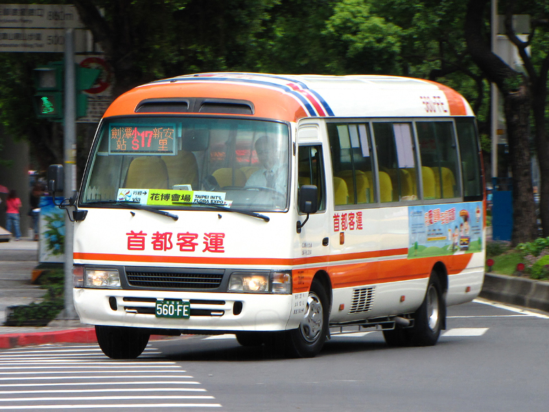 首都客運560-FE